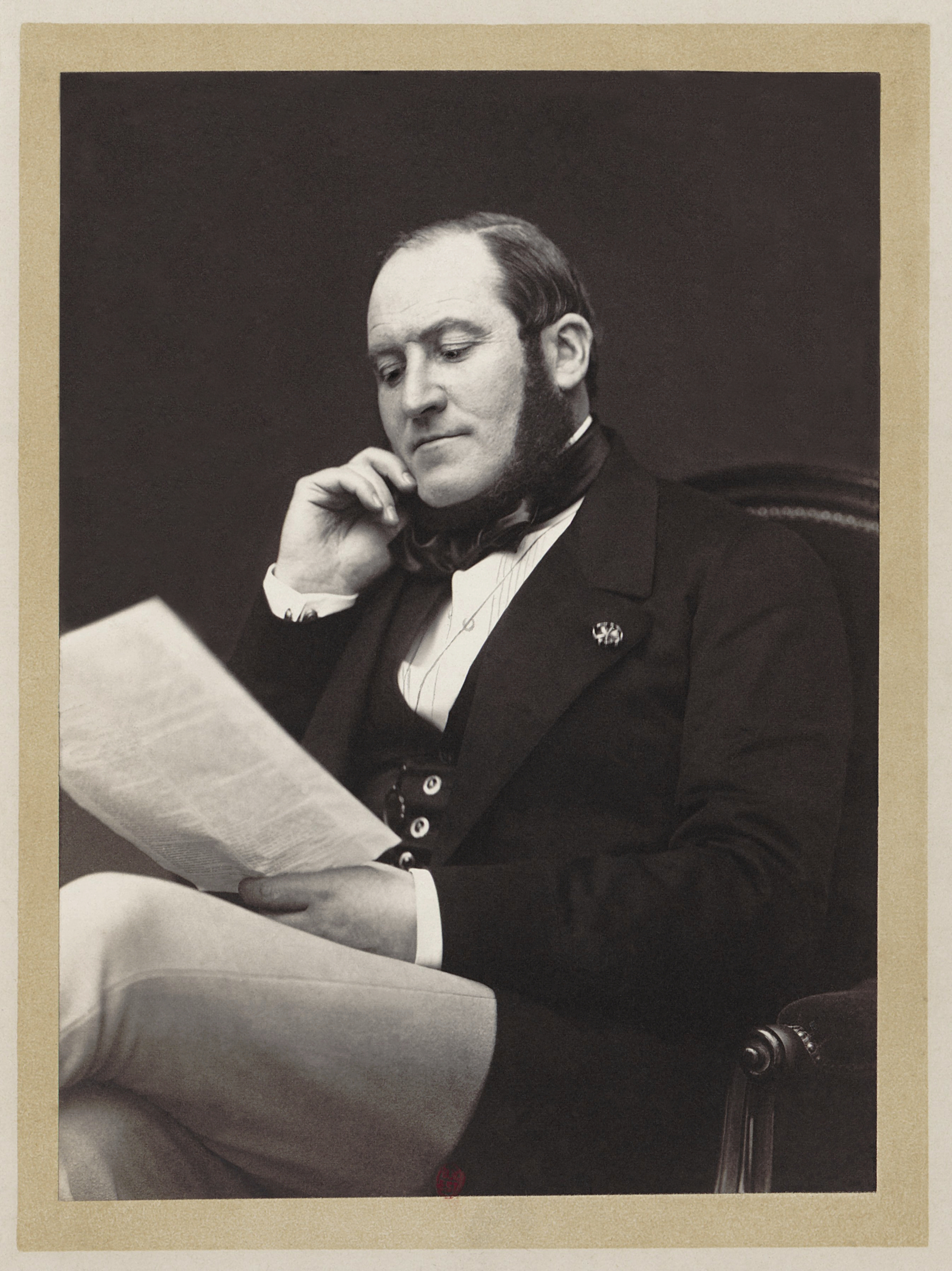 Baron Georges-Eugène Haussmann (1809-1891), Prefect of Paris, urbanist of the Napoleon III's Paris.